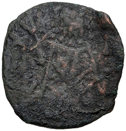 Coin of John III of Trebizond. John standing facing, holding scepter and [globus].